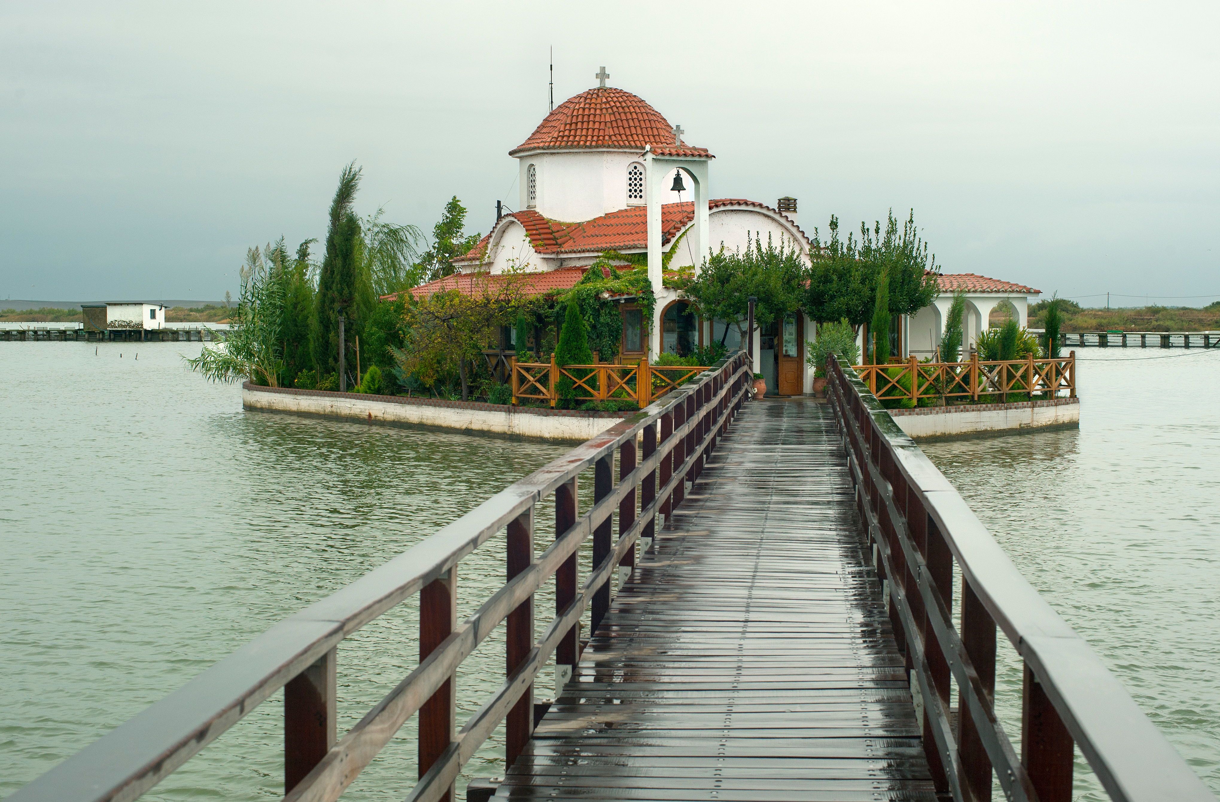 Panagia Pantanassa (Christian Orthodox Church), Porto Lagos, Vistonida lake, Xanthi Prefecture, Thrace, Greece.